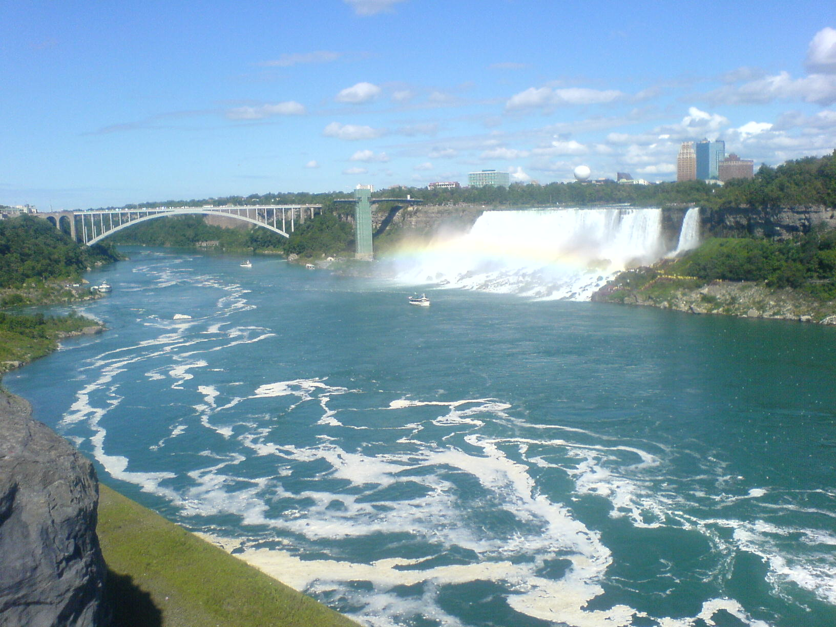 Rainbow Bridge in 2007